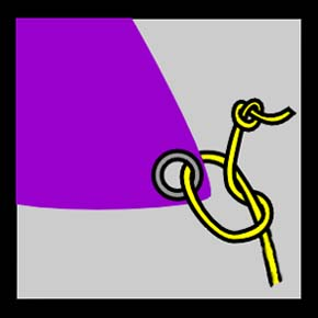 Diagram showing the use of two overhand knots